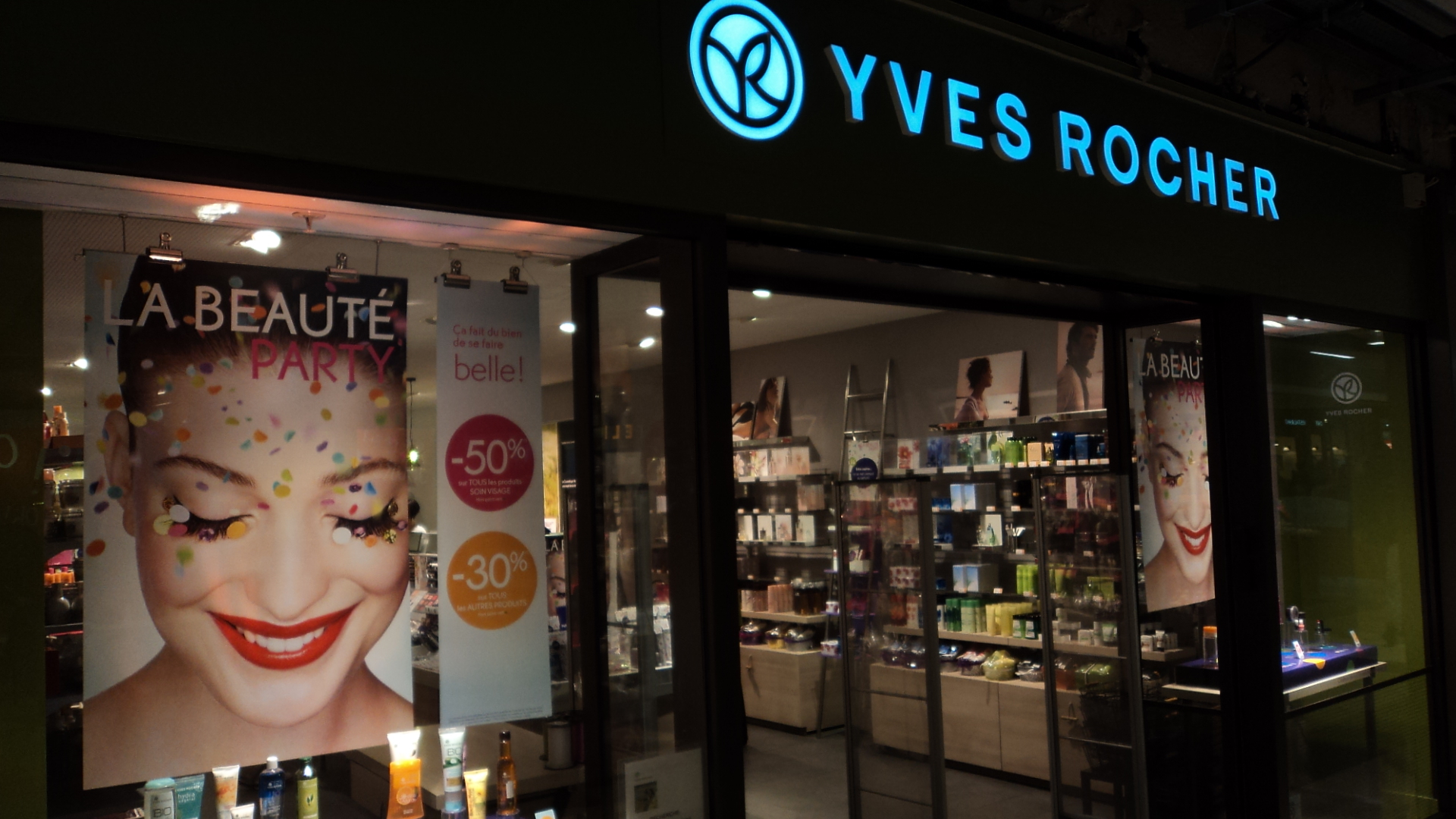 Italie 2 Commercial Centre